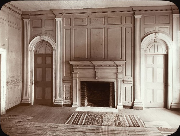 Title [Kittiewan, Weyanoke vicinity, Charles City County, Virginia. Fireplace and panelled surround] Contributor Names Johnston, Frances Benjamin, 1864-1952, photographer Created / Published [between ca. 1930 and 1939] Subject Headings - Houses--Virginia--Charles City County--1930-1940 - Interiors--Virginia--Charles City County--1930-1940 - Fireplaces--Virginia--Charles City County--1930-1940 - Woodwork--Virginia--Charles City County--1930-1940 Format Headings Lantern slides--1930-1940. Notes - On slide (handwritten): "Kittiewan. Interior." - Slide for lecturing on "Tales Old Houses Tell." - Title and date based on same image in the Carnegie Survey of the Architecture of the South, LC-J7-VA-1530, with additional information from Sam Watters, 2011. - Forms part of: Garden and historic house lecture series in the Frances Benjamin Johnston Collection (Library of Congress). - Formerly in Box 29. Medium 1 photograph : glass lantern slide, sepia-toned ; 3.25 x 4 in. Call Number/Physical Location LC-J717-X106- 35 [P&P] Repository Library of Congress Prints and Photographs Division Washington, D.C. 20540 USA Digital Id ppmsca 16605 //hdl.loc.gov/loc.pnp/ppmsca.16605 Library of Congress Control Number 2008675905 Reproduction Number LC-DIG-ppmsca-16605 (digital file from original item) Rights Advisory No known restrictions on publication. Online Format image Description 1 photograph : glass lantern slide, sepia-toned ; 3.25 x 4 in. LCCN Permalink